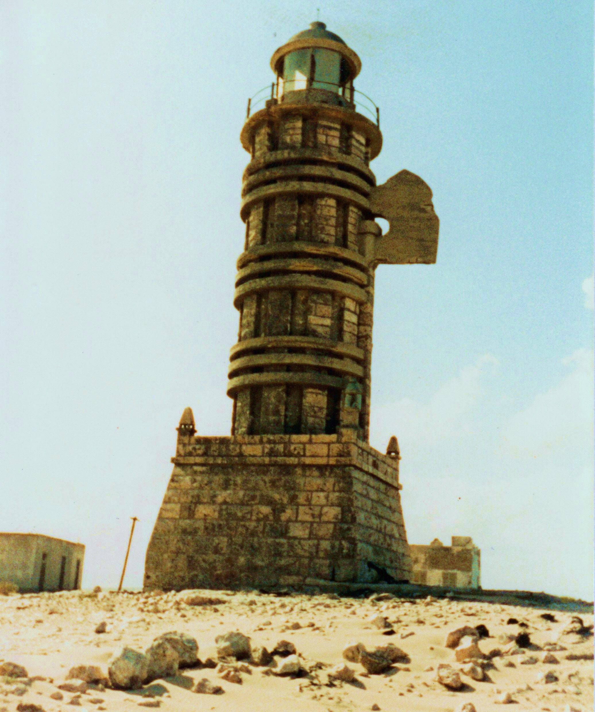 This non-functional masonry lighthouse stands at the extreme tip of the Horn of Africa at a place called Cape Guardafui where the Gulf of Aden meets the Indian Ocean.